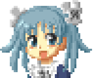 Cropped version of Image:Wikipe-tan pixel art x4.png.